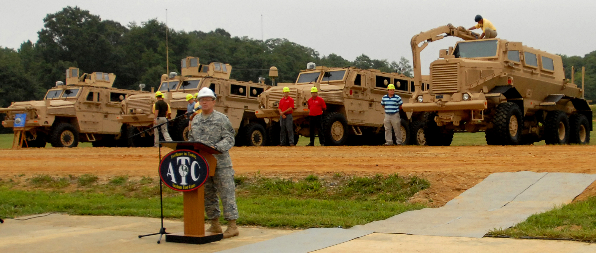 Army Col. John Rooney, commander of the U.S. Army Test Center, speaks before an orientation of the mine-resistant, ambush-protected vehicles, on Aberdeen Proving Ground, Md., August 24, 2007.